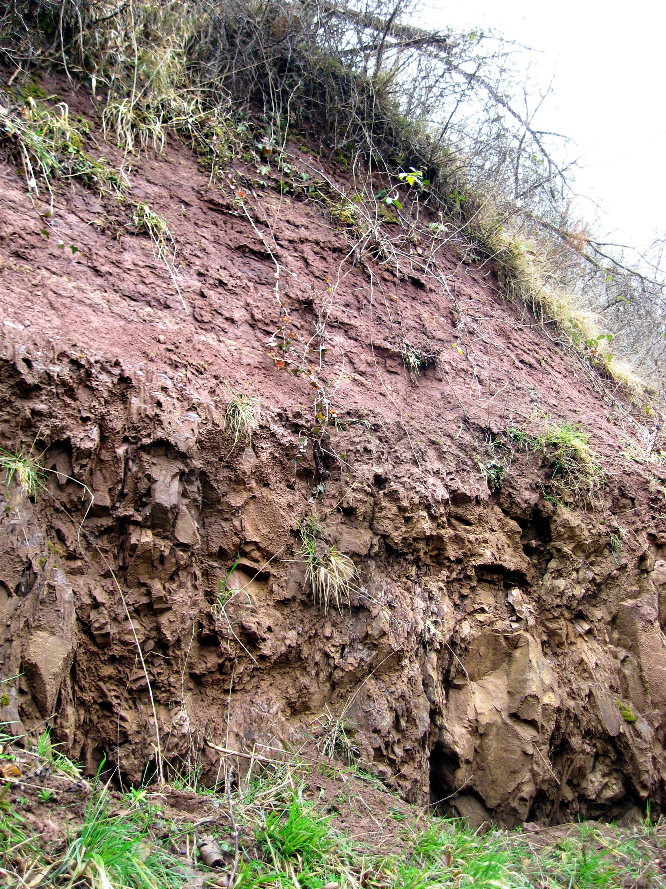 At Allar's Mill, Jedburgh, close up of Hutton's Unconformity where horizontal Devonian Old Red Sandstone layers lie over an uneven conglomerate layer on top of older vertically bedded and folded Silurian greywacke rocks.